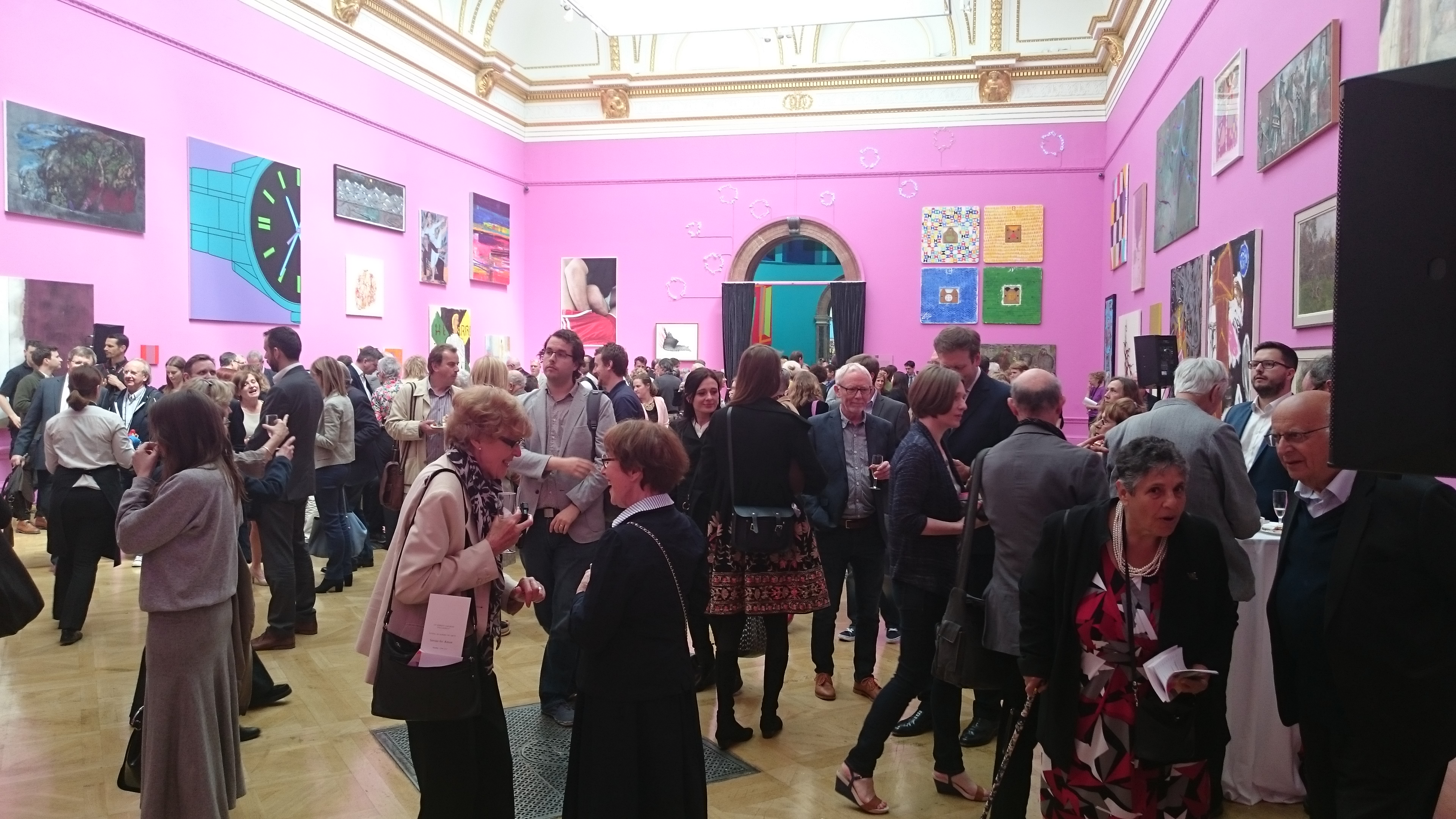 View of Gallery III in Burlington House during "Varnishing Day" 2015, the artists' opening of the Royal Academy Summer Exhibition. Coordinator of the 2015 exhibition was Michael Craig Martin, who chose the pink colour of the gallery and whose painting of a wristwatch is on the left wall.